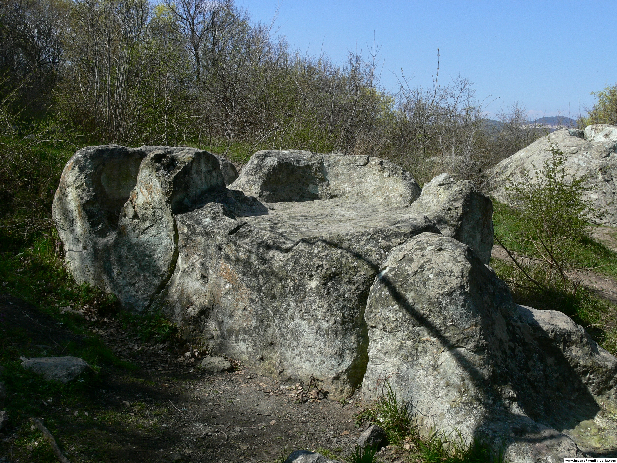 Perperikon — ancient Thracian town in the Rhodope Mountains